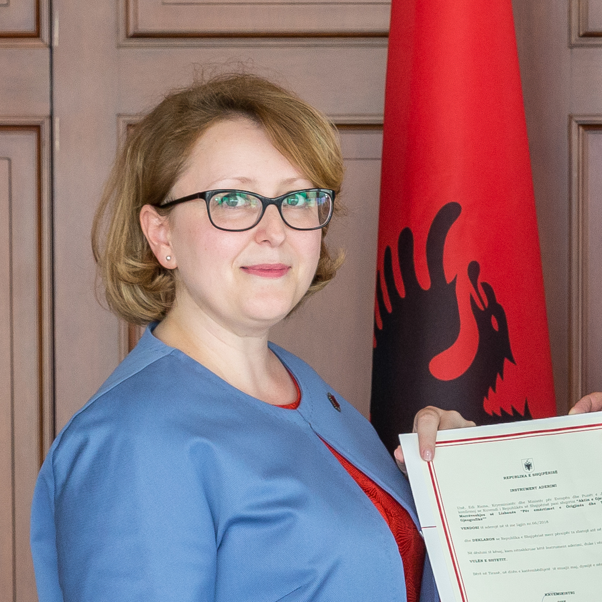 Albania deposited on June 26, 2019 its instrument of accession to the Geneva Act of the Lisbon Agreement on Appellations of Origin and Geographical Indications. The instrument of accession was deposited with WIPO Director General Francis Gurry (right) by Ambassador Ravesa Lleshi, Permanent Representative of Albania to the United Nations in Geneva. The Geneva Act provides producers of quality products linked to origin with faster and cheaper access to the international protection of their products' distinctive designations. The Geneva Act further develops the legal framework of the Lisbon System, which helps promote many globally marketed products such as, for example, Darjeeling tea and Café de Colombia. Accession by Albania brings the number of instruments of accession to the Geneva Act to 3. The Geneva Act will enter into force three months after five eligible parties have deposited their instruments of ratification or accession. Copyright: WIPO. Photo: Emmanuel Berrod. This work is licensed under a Creative Commons Attribution-ShareAlike 3.0 IGO License.